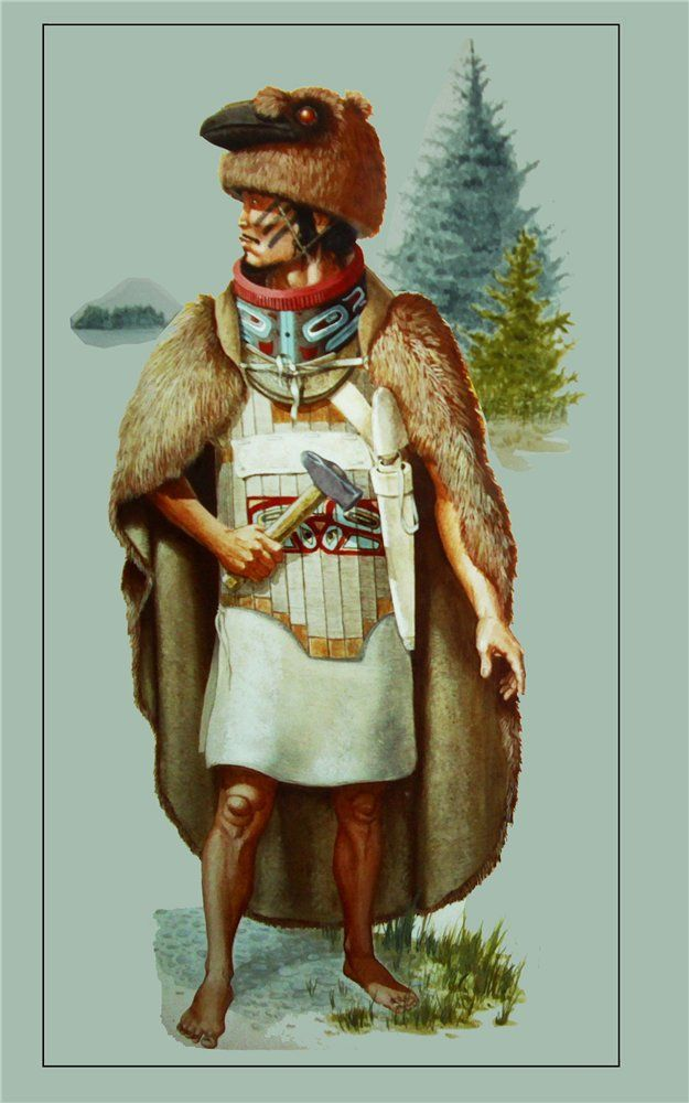 A modern reconstruction of a battle ready Katlian, leader of the Kiksadi clan and of the Tlingit resistance to the Russians in the Battle of Sitka. In addition to the Tlingit armor and dagger, Katlian wears his famous raven war helmet and he holds a Russian blacksmith's hammer that he acquired when storming the fortress of St. Archangel Michael in 1802. The hammer became his favorite weapon afterwards. This reconstruction is from the collection of Sitka National Historical Park.